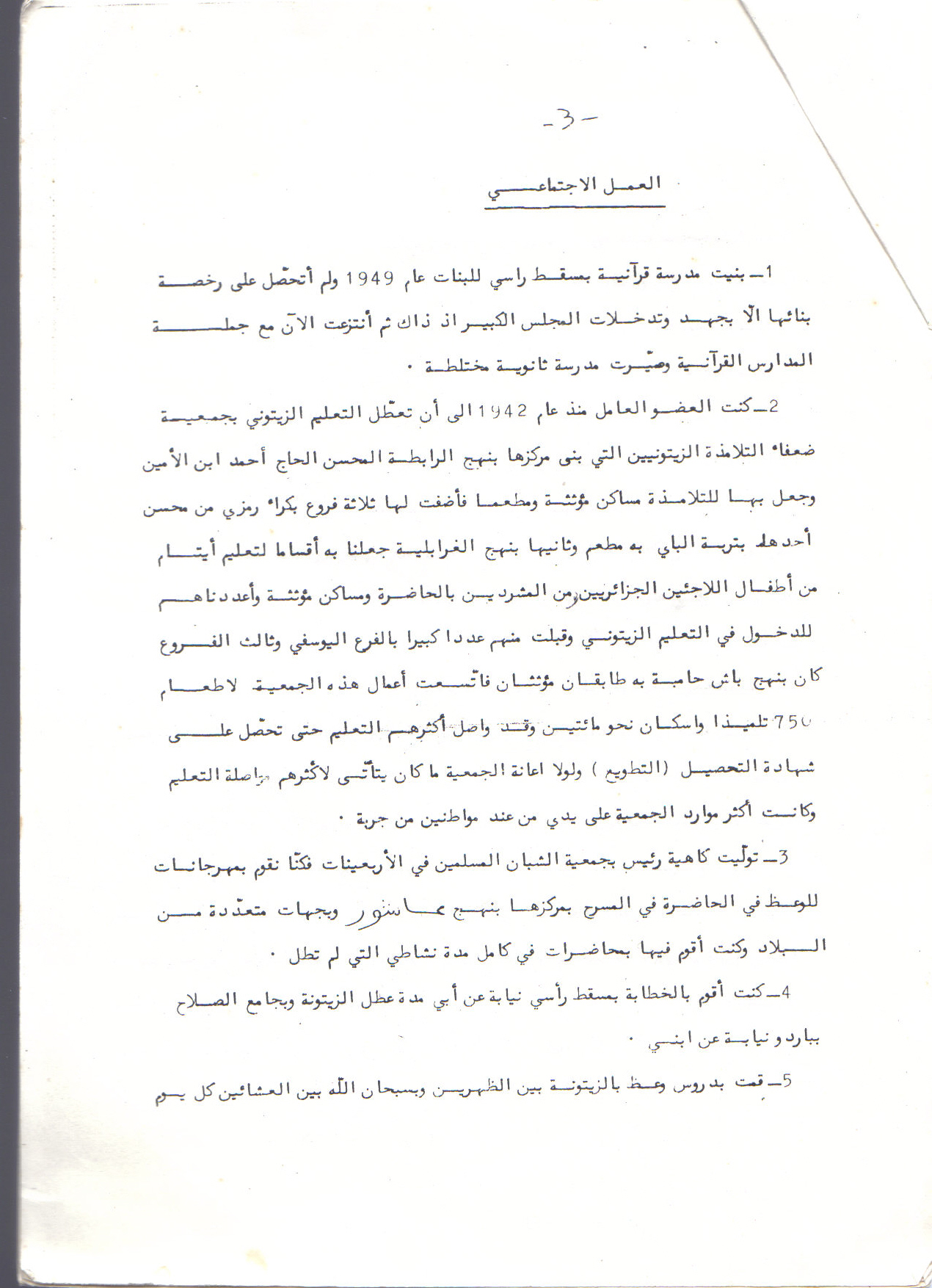 السيرة الذاتية للشيخ الطيب التليلي، ص 3